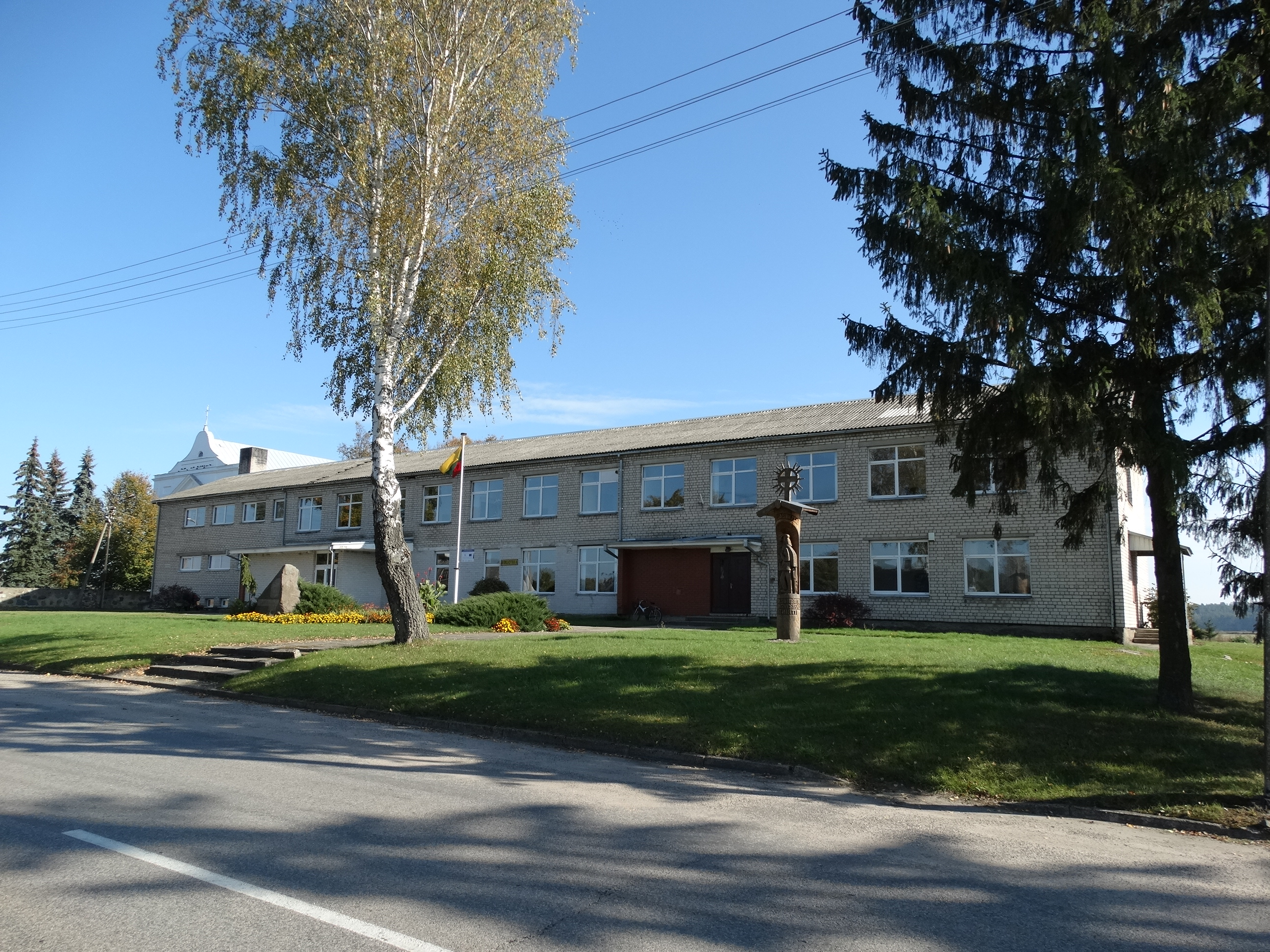 School, Darsūniškis, Kaišiadorys District, Lithuania